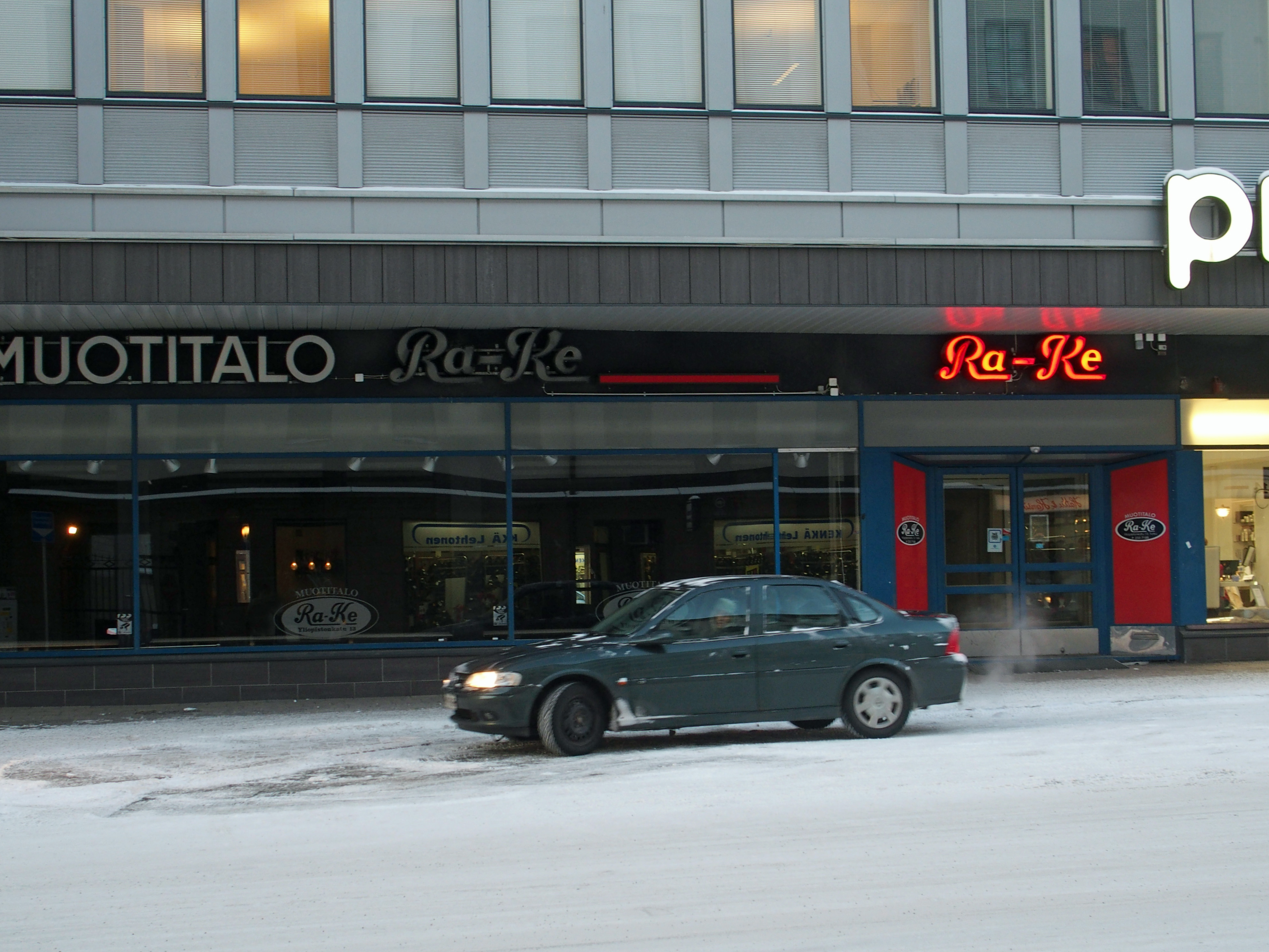 Former Ra-Ke ladies fashion shop, 1948–2016, closed Sat Jan 16, pictured here Thu Jan 21, 2016. Address: Yliopistonkatu 13, TURKU, Finland.